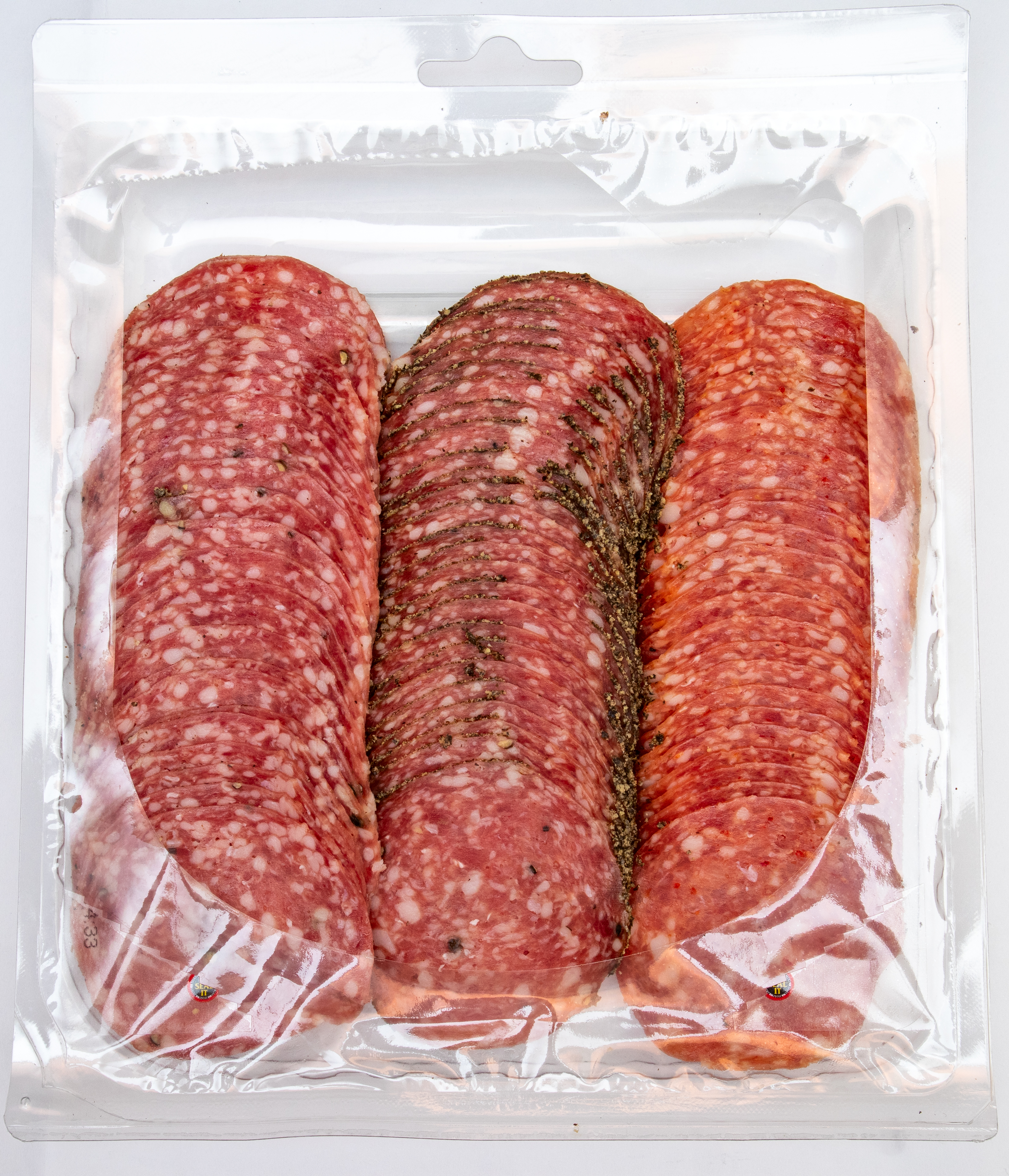 Example of salamis from Columbus Craft Meats: L to R: Italian Dry Salame, Peppered Salame, and Calabrese Salame